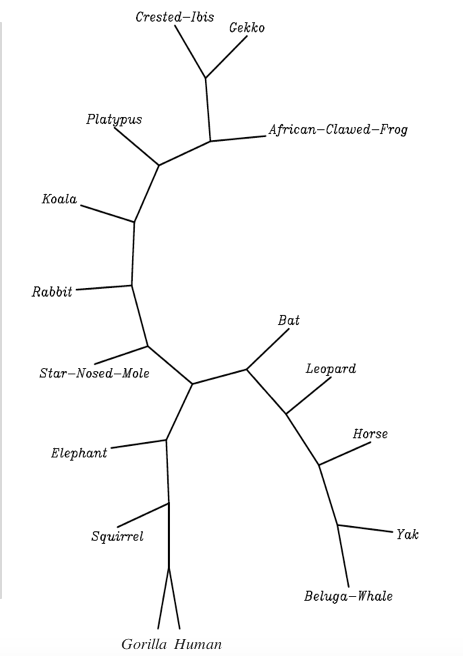 Phylogentic tree